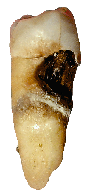 Cervical decay on a premolar